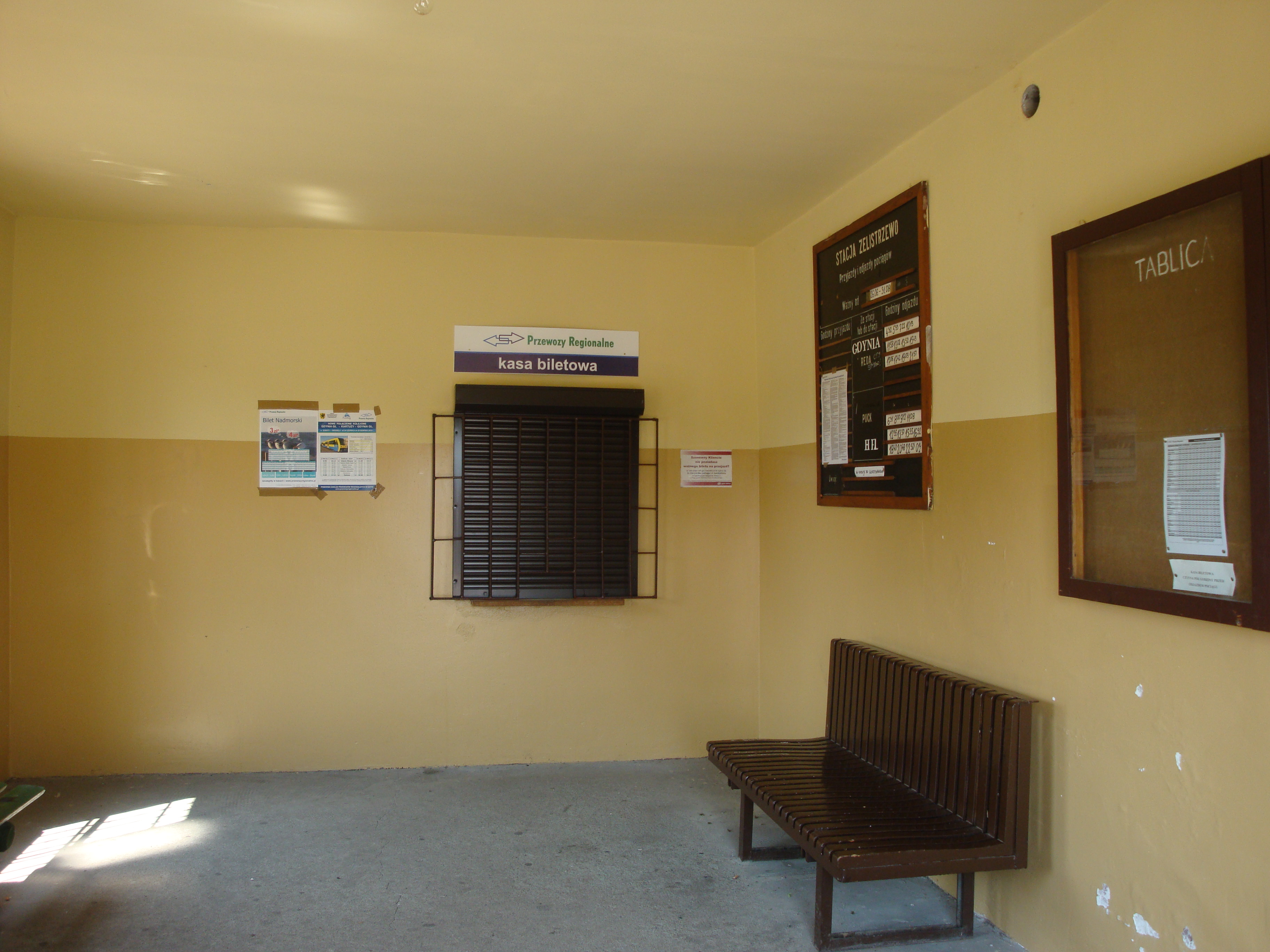 Train station in Żelistrzewo, Gmina Puck, Poland. Line 213. Waiting room and ticket booth